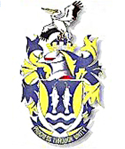 Coat of arms of Henties Bay, Namibia